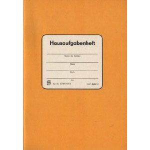 Cover of a homework diary (student planner) from the German Democratoc Republic. Size DIN A 5, colour orange.